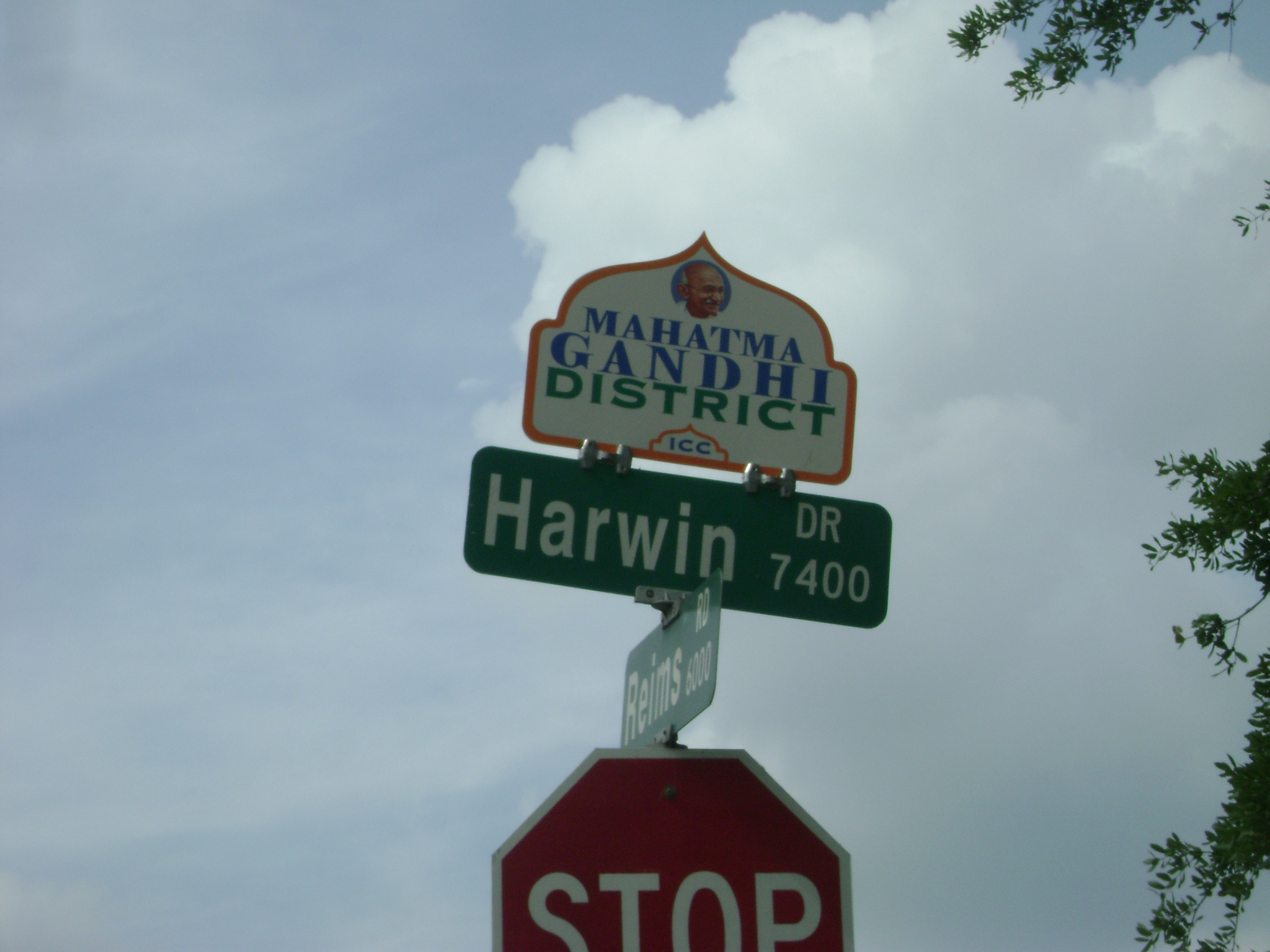 A street sign in the Mahatma Gandhi District in Houston, Texas USA.